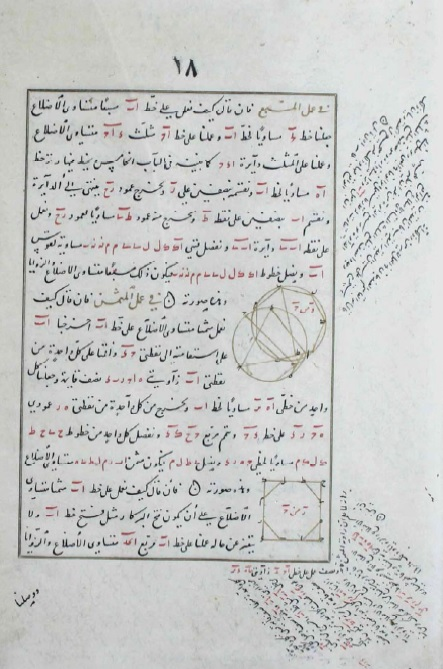 The page 18 of the "Book on Those Geometric Constructions Which Are Necessary for a Craftsman" (كتاب فيما یحتاج إليه الصانع من أعمال الهندسة Kitāb fīmā yaḥtāj ilayh al-ṣāniʿ min aʿmāl al-handasa)